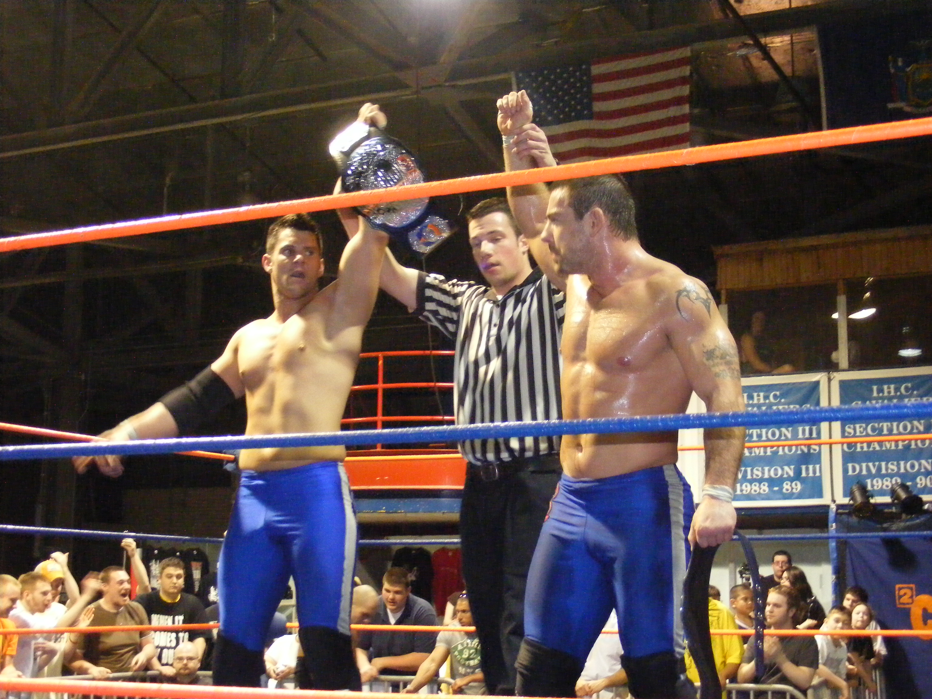 The American Wolves (Eddie Edwards, left, and Davey Richards, right) immediately after winning the 2CW Tag Team Championship at a 2CW show in Watertown on April 2, 2010.